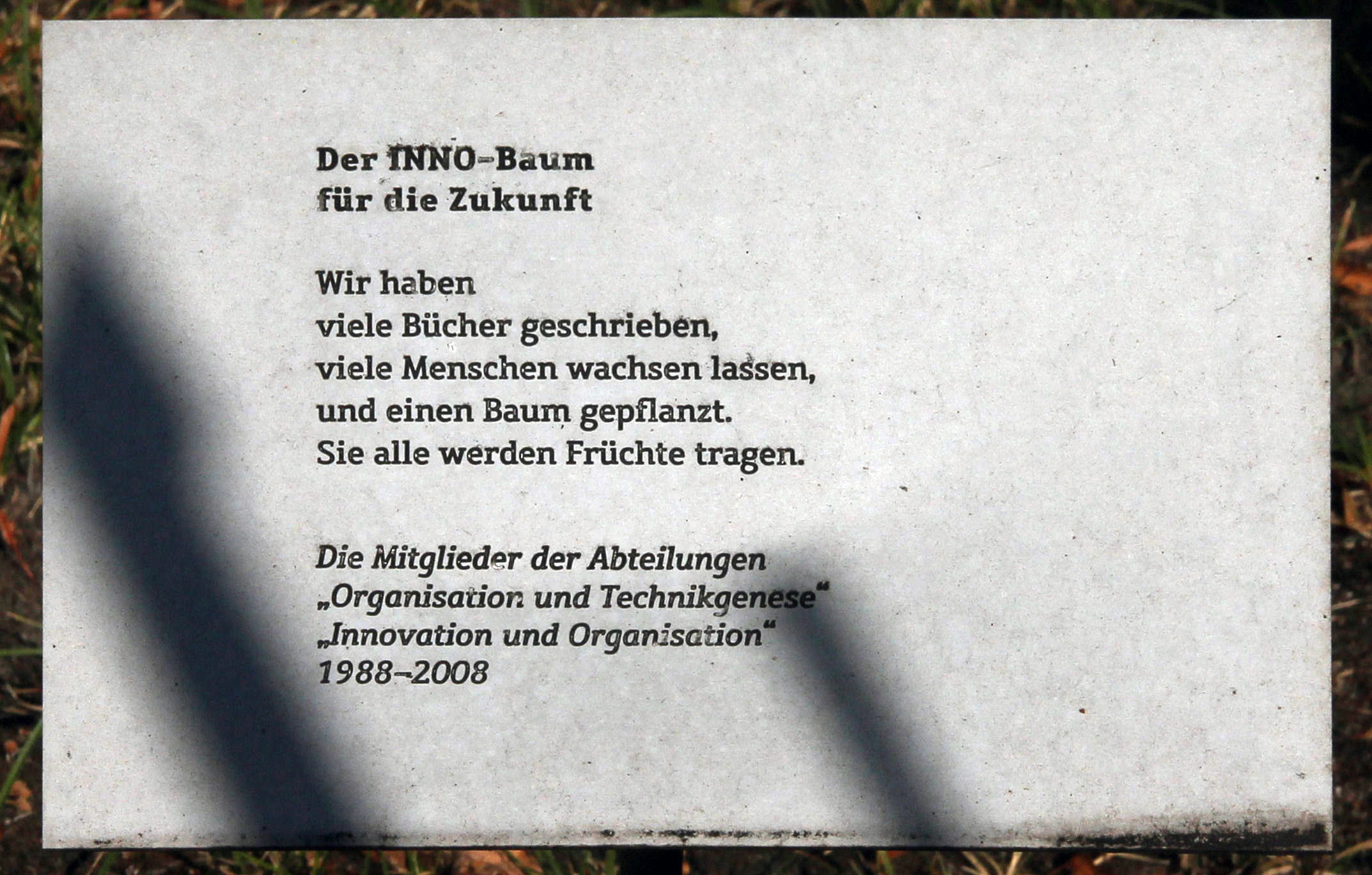 Memorial plaque, INNO Baum, Reichpietschufer 50, Berlin-Tiergarten, Deutschland